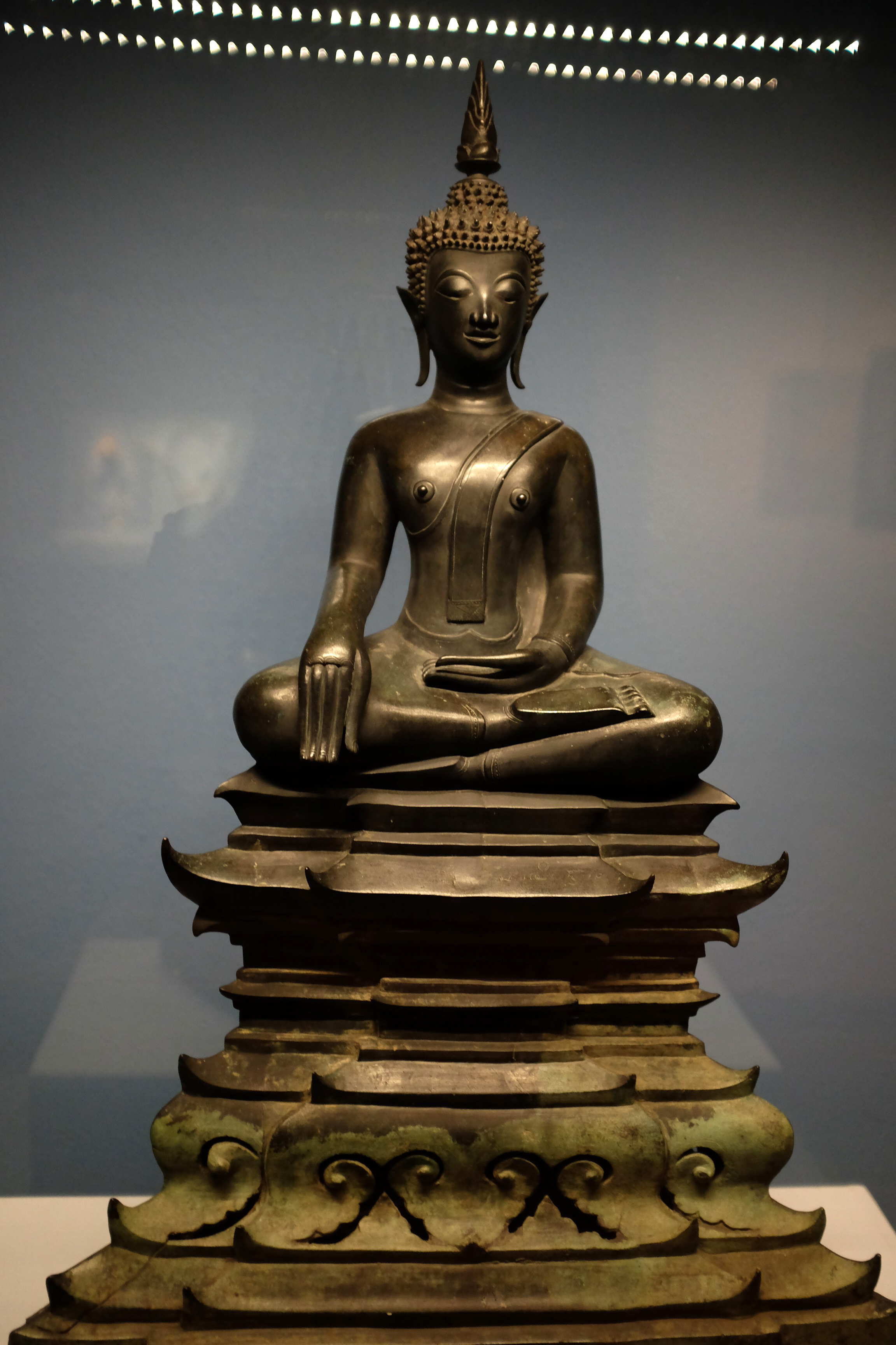 Seated Buddha touching the earth, bronze, 17th century Lan Xang period, Laos